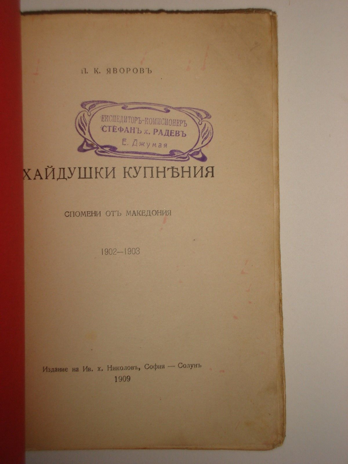 Haydushki Kopneniya